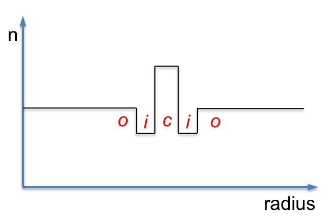 Schematic diagram for dispersion compensating fiber